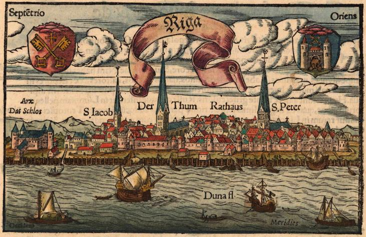 Riga. Cosmographia (Sebastian Münster)